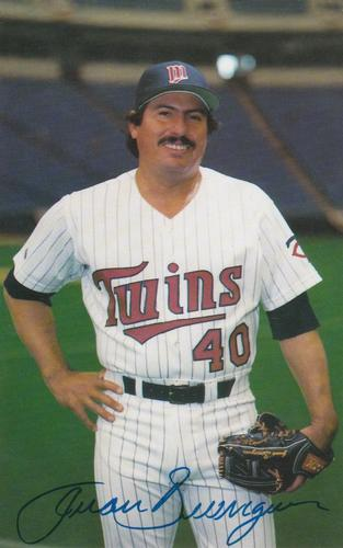 Professional baseball player Juan Berenguer